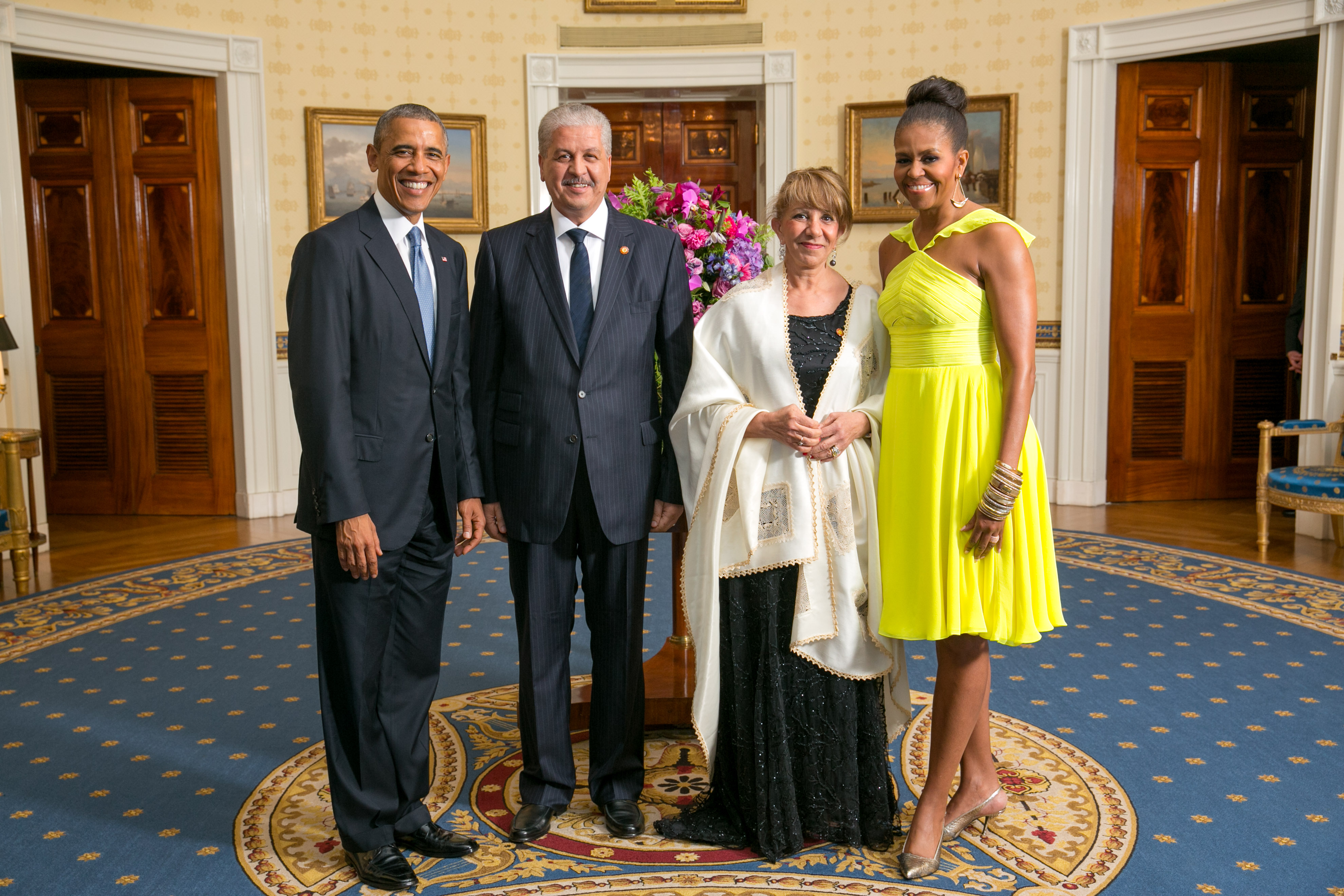 President Barack Obama and First Lady Michelle Obama greet His Excellency Abdelmalek Sellal, Prime Minister of the People’s Democratic Republic of Algeria and Mrs. Farida Sellal, in the Blue Room during a U.S.-Africa Leaders Summit dinner at the White House, Aug. 5, 2014. [Official White House Photo by Amanda Lucidon] This official White House photograph is in the public domain from a copyright perspective, so while restrictions such as personality or privacy rights may apply, in general, manipulations are allowed.